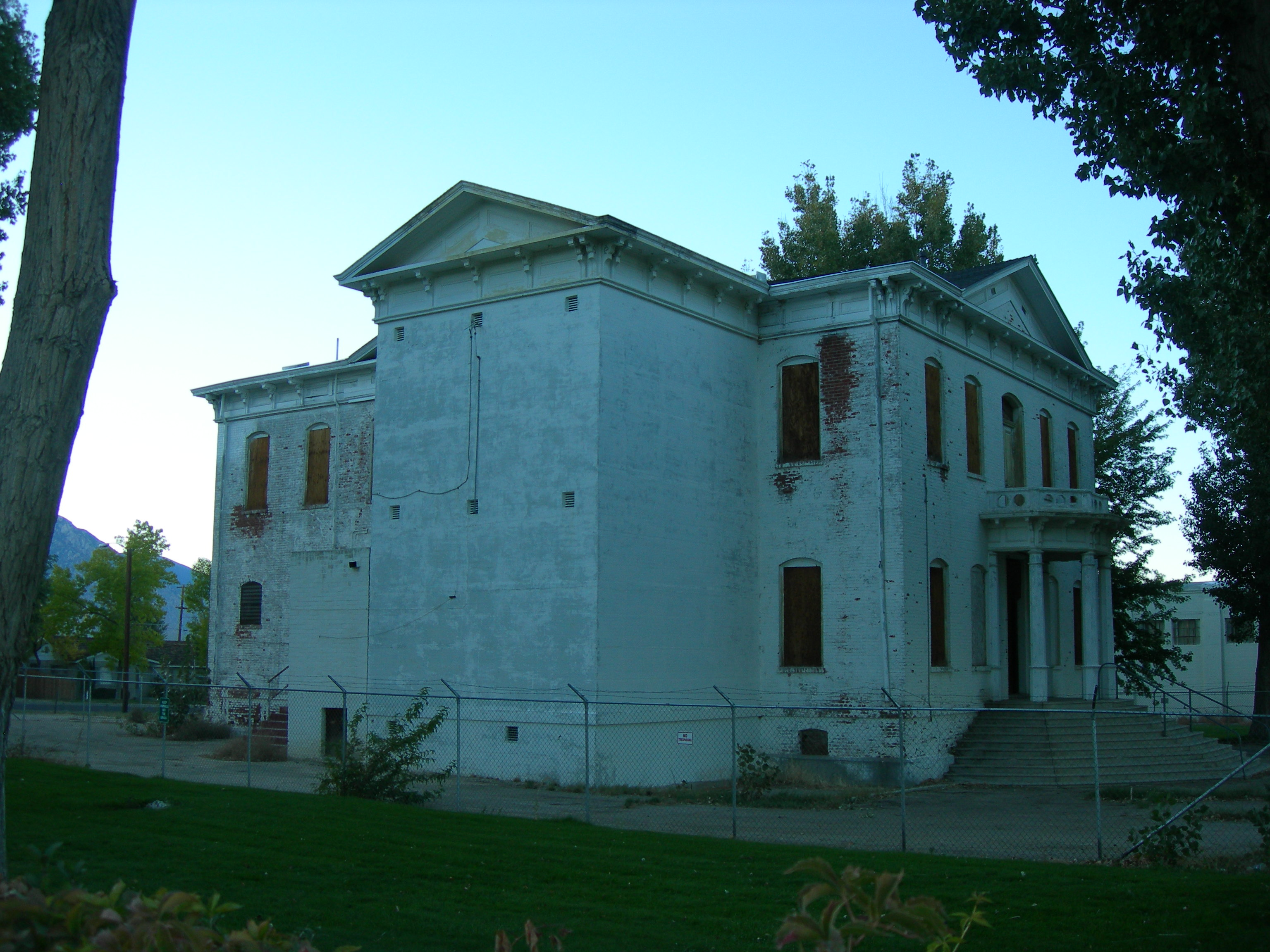 The old Esmeralda & Mineral County Court House — Hawthorne, Nevada Constructed in 1883 to serve Esmeralda County. In 1907, the county seat was moved to Goldfield and the courthouse sat vacant until 1911 when Mineral County was established and this courthouse put back into use for it's second county. It served Mineral Countyuntil the current courthouse was built in 1970. It is the only courthouse in Nevada, and one of only a few in the country to have served two separate counties. It was condemned in 1974 and currently sits in a state of disrepair, however it is listed on the National Register of Historic Places. Marker